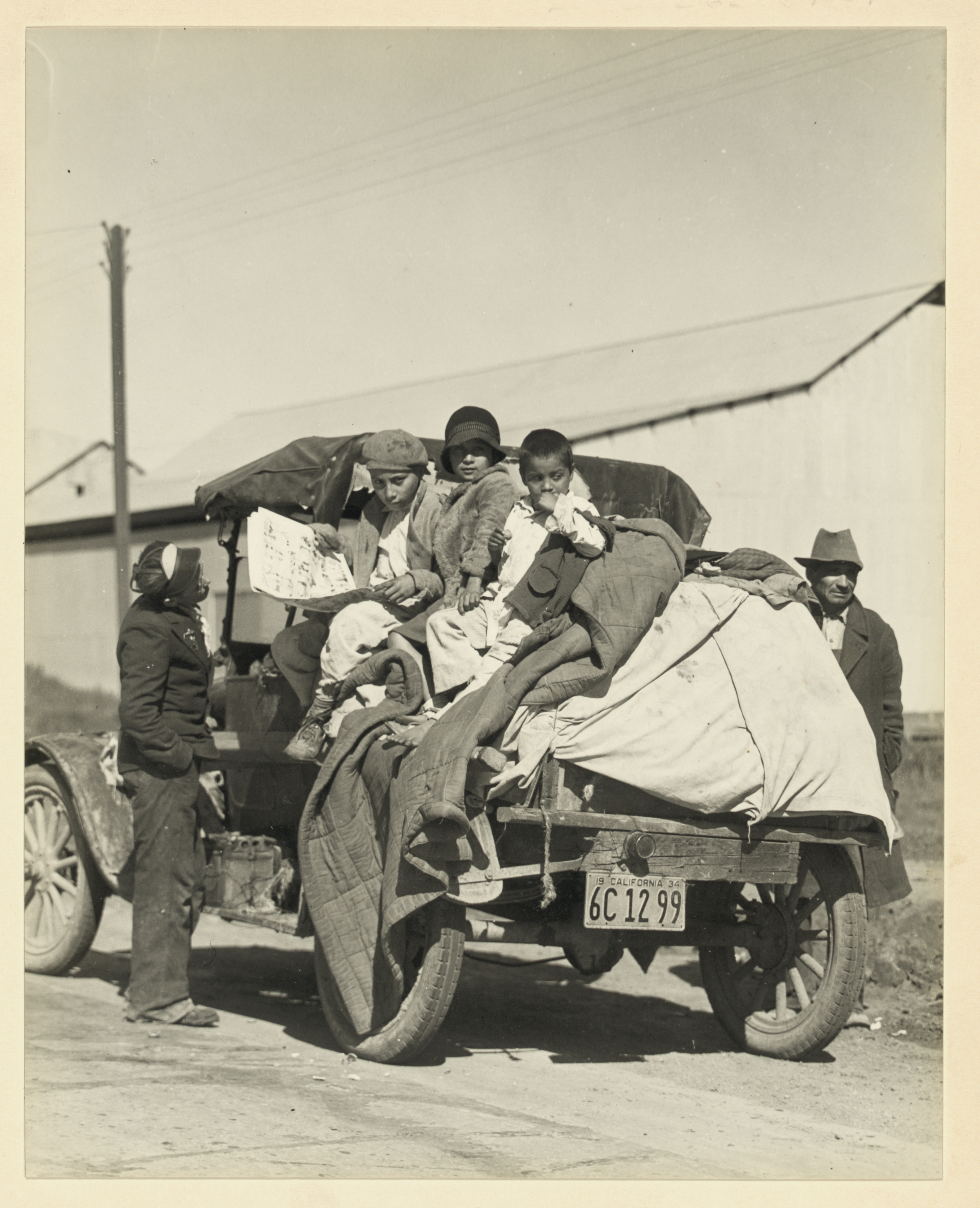 Establishment of rural rehabilitation camps for migrants in California. March 15, 1935 (from page 1a)